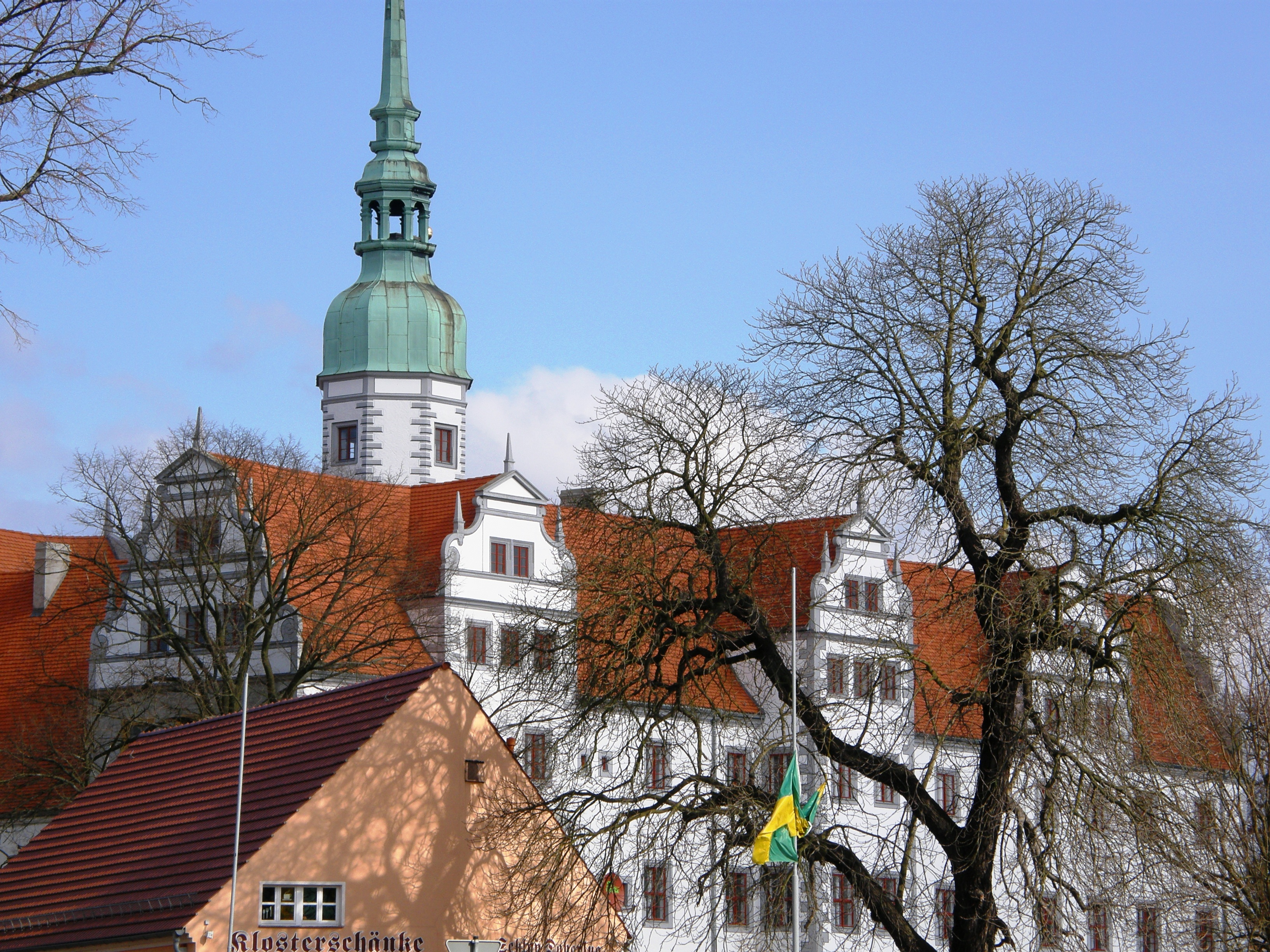 Castle Doberlug, in front "Klosterschänke"